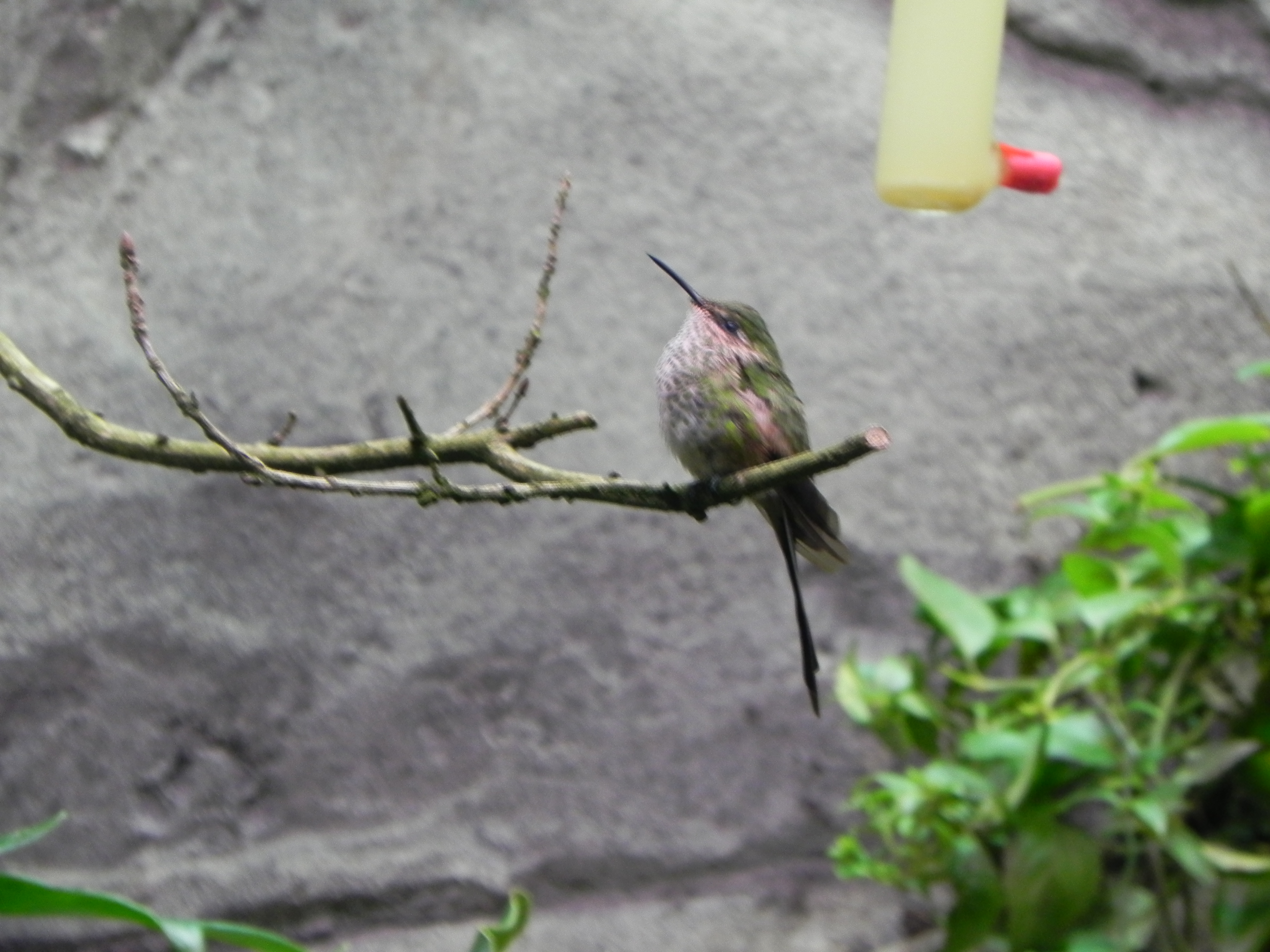 Green-tailed Trainbearer (Lesbia nuna), a hummingbird in Walsrode Bird Park, Germany